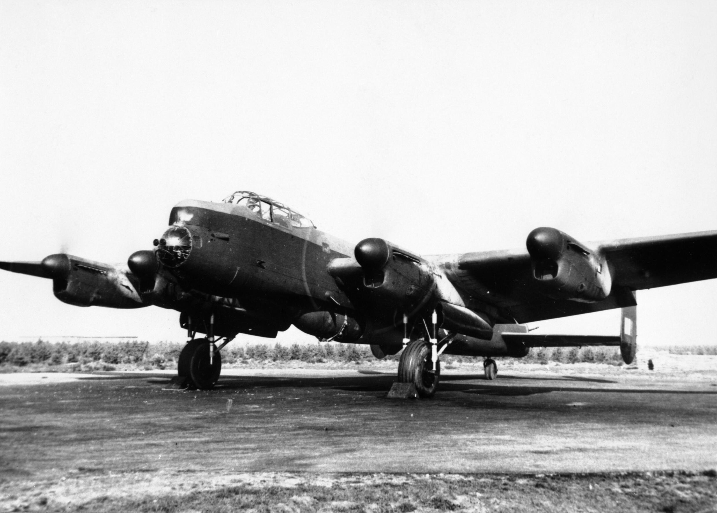 Avro Lancaster B Mk I (Special) of No. 617 Squadron, loaded with a 'Grand Slam' 22,000-lb deep-penetration bomb, running up its engines at Woodhall Spa, Lincolnshire, 1944. An Avro Lancaster B Mark 1 (Special) of No. 617 Squadron RAF, loaded with a 22,000-lb MC deep-penetration bomb (Bomber Command executive code word 'Grand Slam'), running an engine test in its dispersal at Woodhall Spa, Lincolnshire.